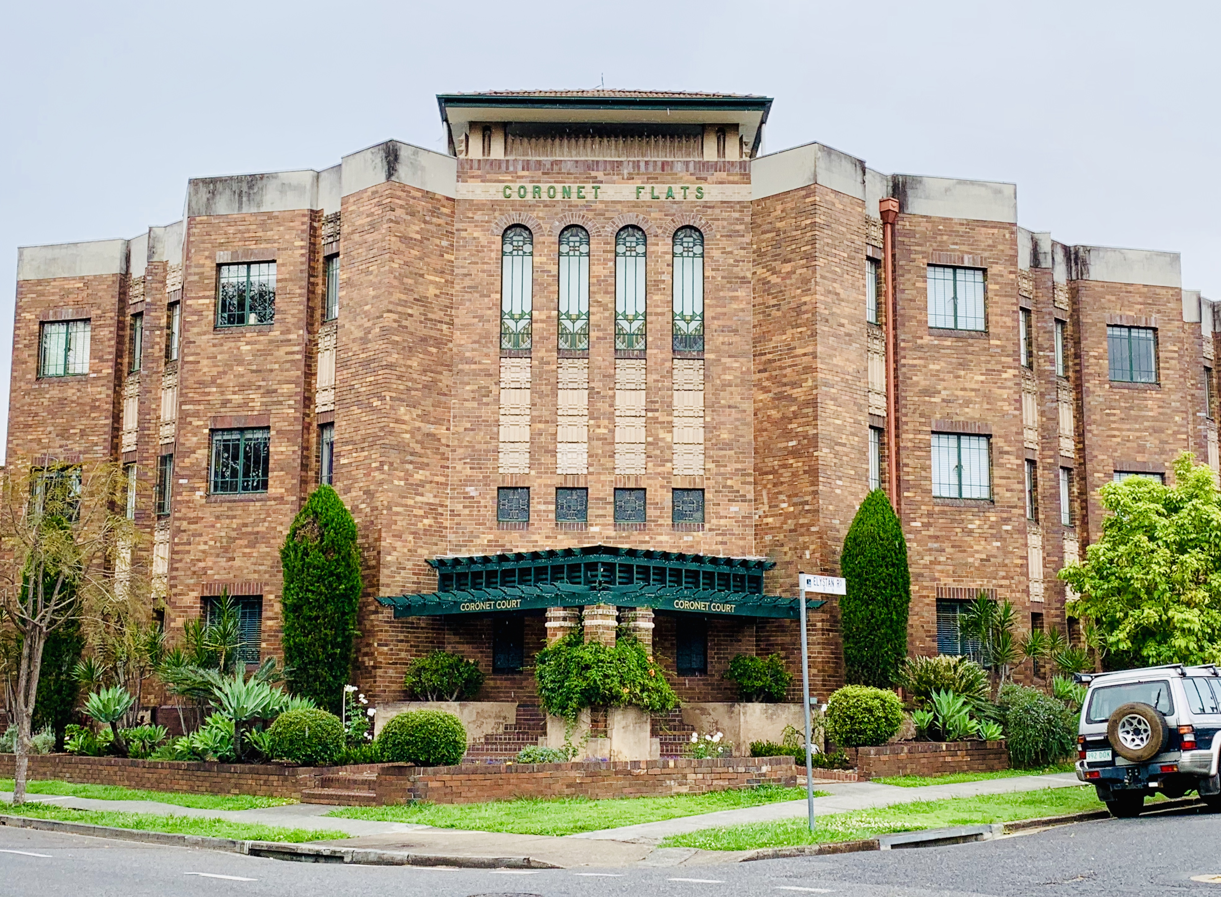 Coronet Flats House in New Farm, Queensland